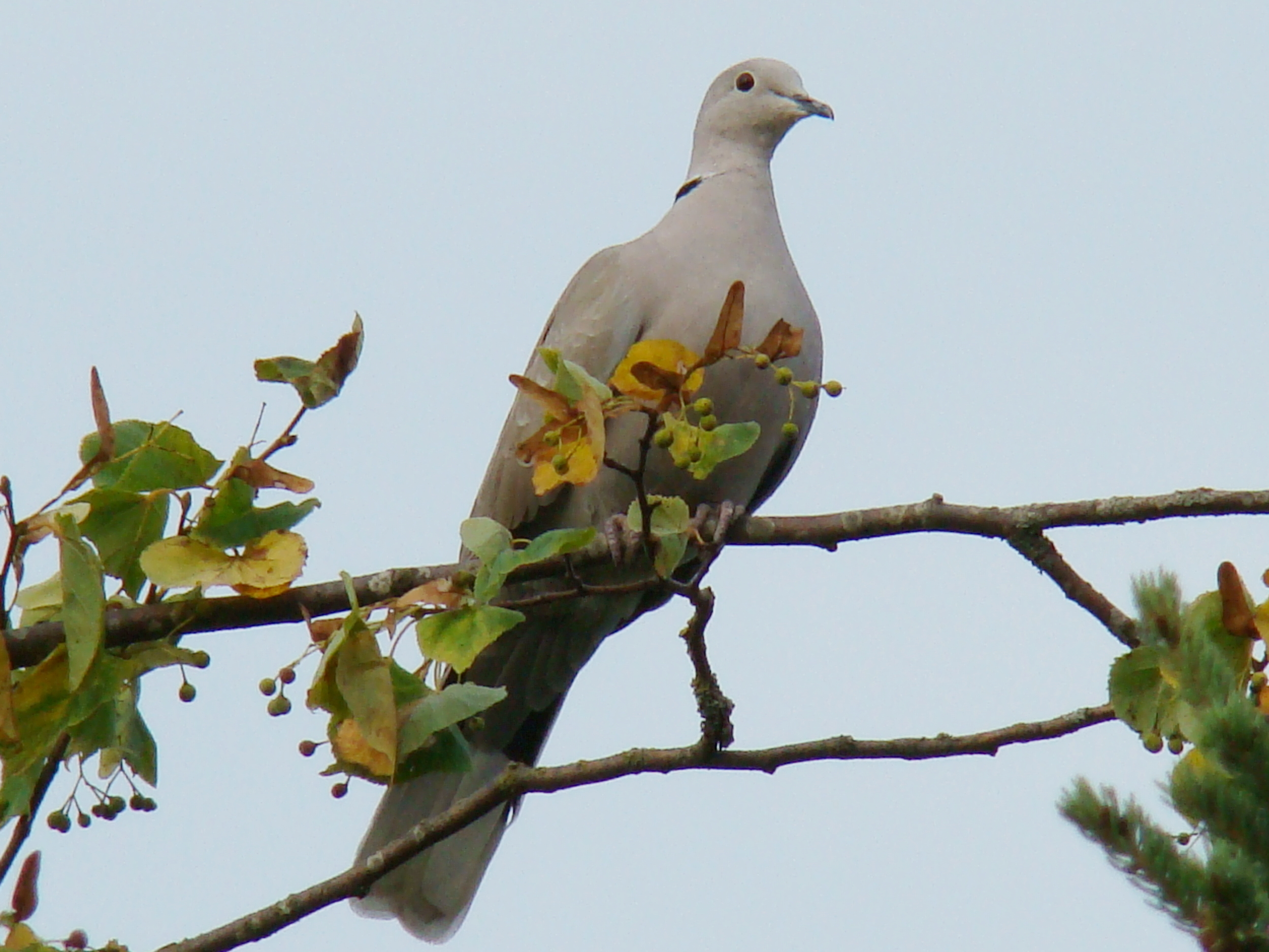 Photo of the Eurasian Collared Dove (Streptopelia decaocto) in Siauliai, Ginkunai, Lithuania.